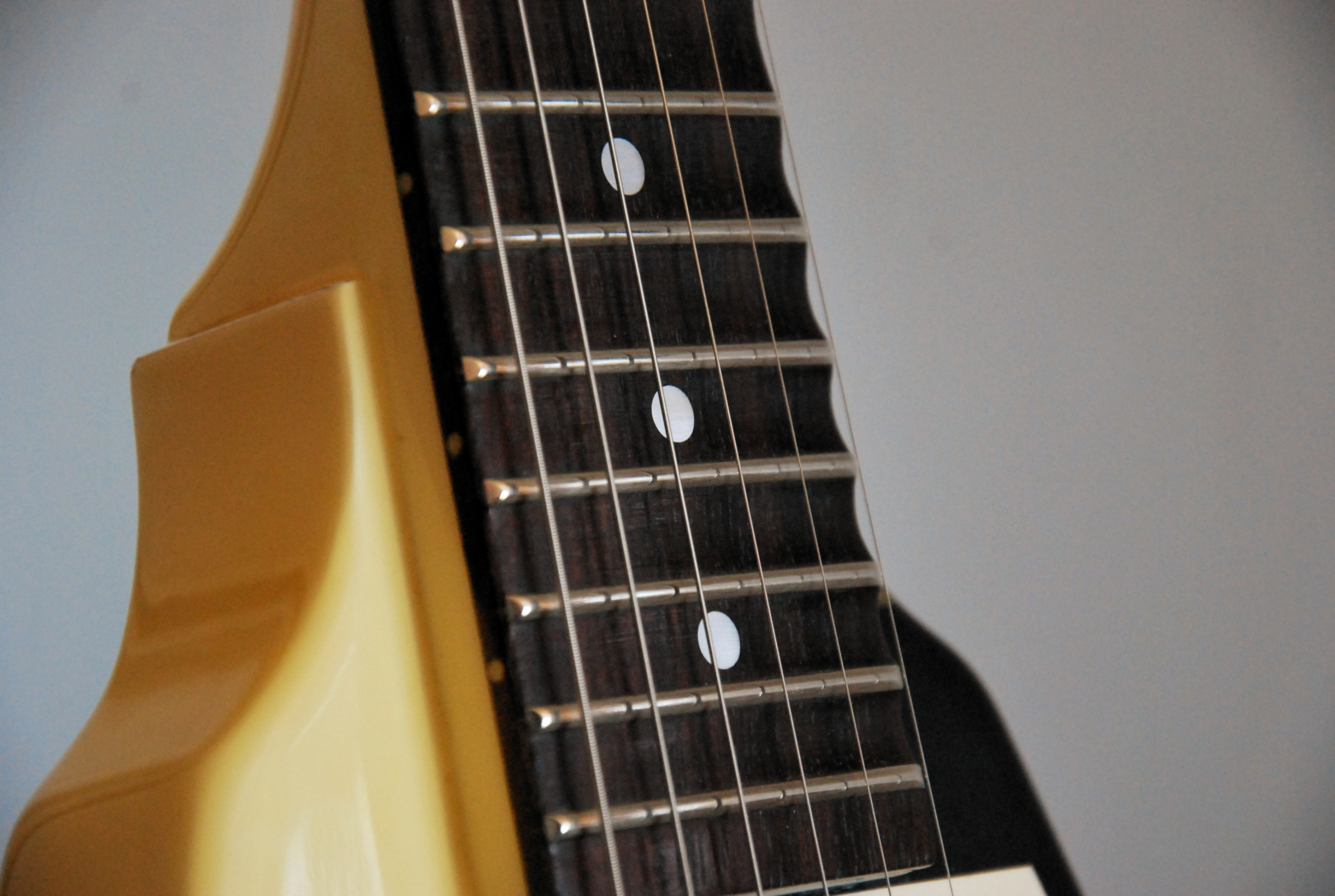 1984 Greco MSV650 Michael Schenker Signature 1984 MiJ Greco MSV650 Michael Schenker Signature (or "inspired by") guitar featuring original specs. Amazing tone? Check. Custom made black/cream pickguard to optimize look. Strat-type knobs have been changed by Gibson Flying V type knobs. Note the scalloped fingerboard from 12th on first strings. Body color has been aging... Flickr Tags: greco Japanese GUITAR Flying V VINTAGE 80s Michael Schenker Fernandes.